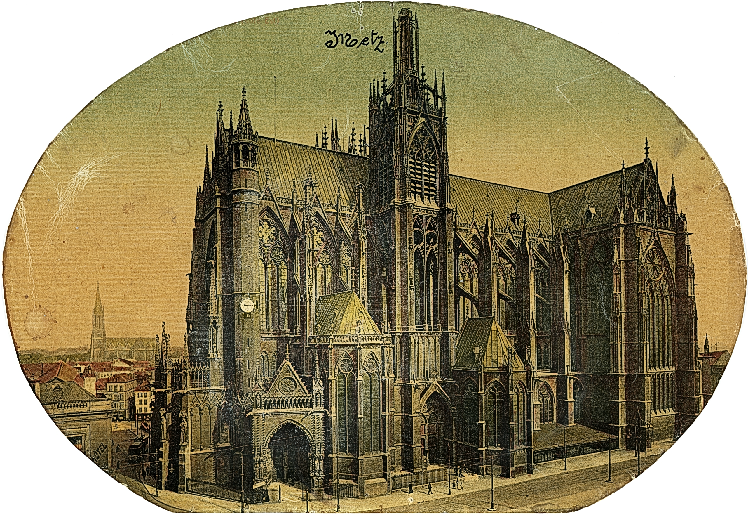 Metz Cathedral around 1900. You can see the tram line that bypasses the Cathedral and the Garrison Temple, on the left, of which only the bell tower remains. Coloured photo 26 cm x 17,5 cm.